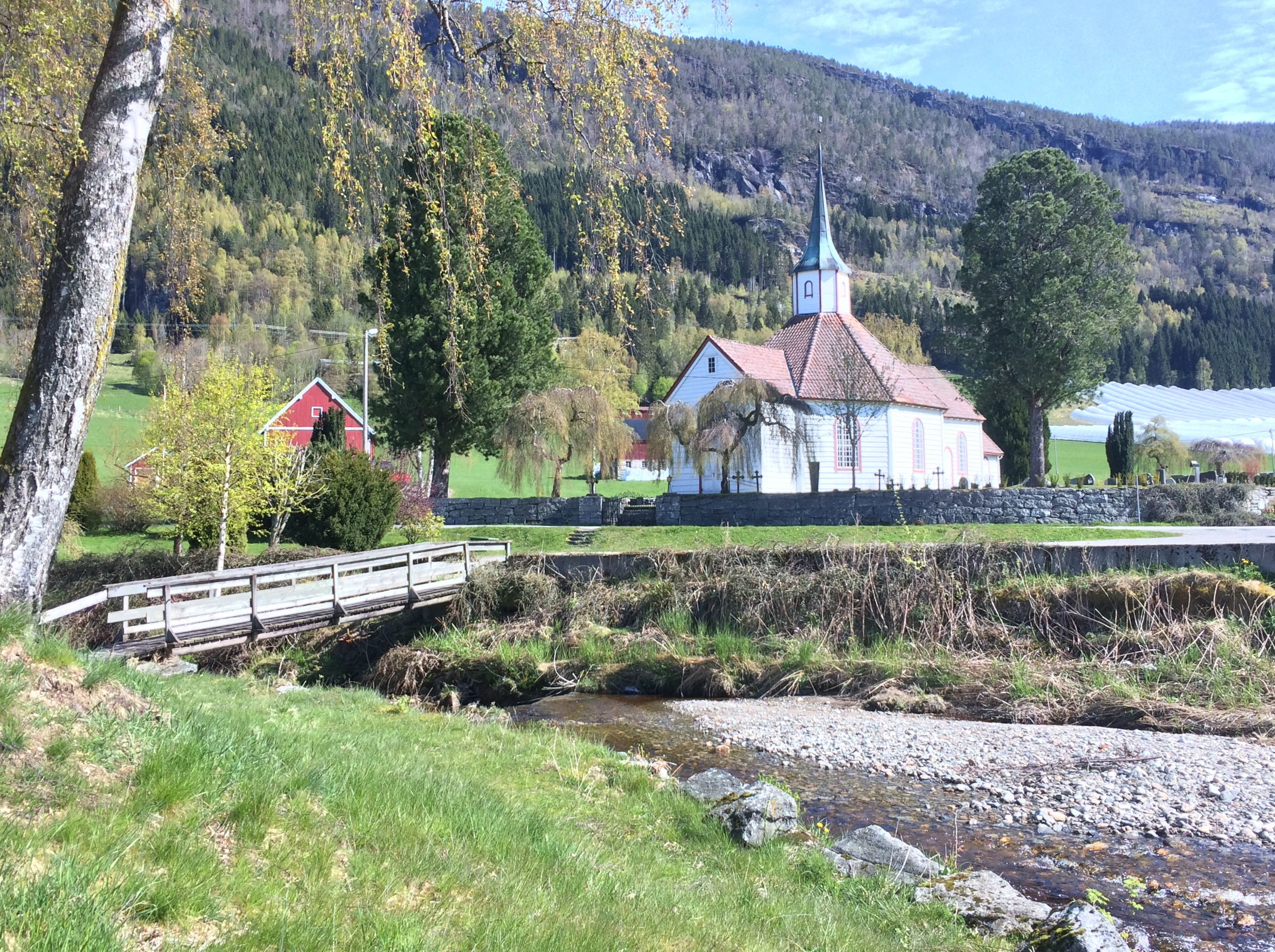 Innvik Church, Stryn, Sogn og Fjordane, Norway 2014-05-05